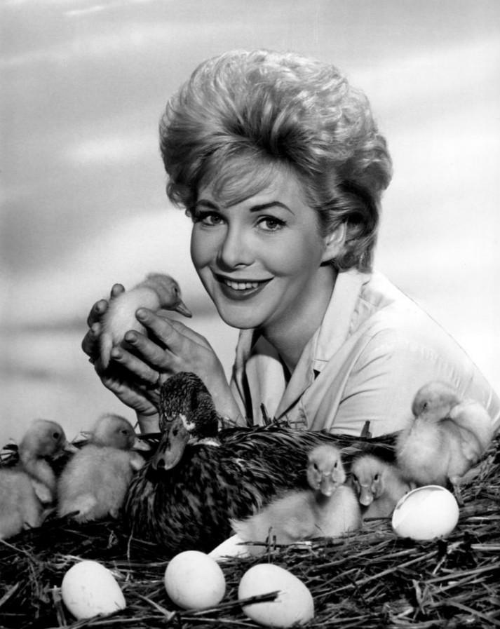 Photo from the television program General Electric True. Jan Shepard plays a Milwaukee newspaper reporter who is assigned to write a story about a mother mallard who has built her nest on a river piling in Milwaukee's downtown. The episode is "Gertie the Great".